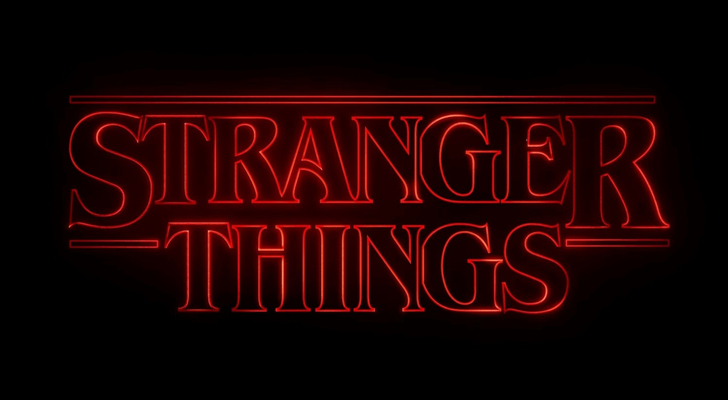 Stranger Things logo